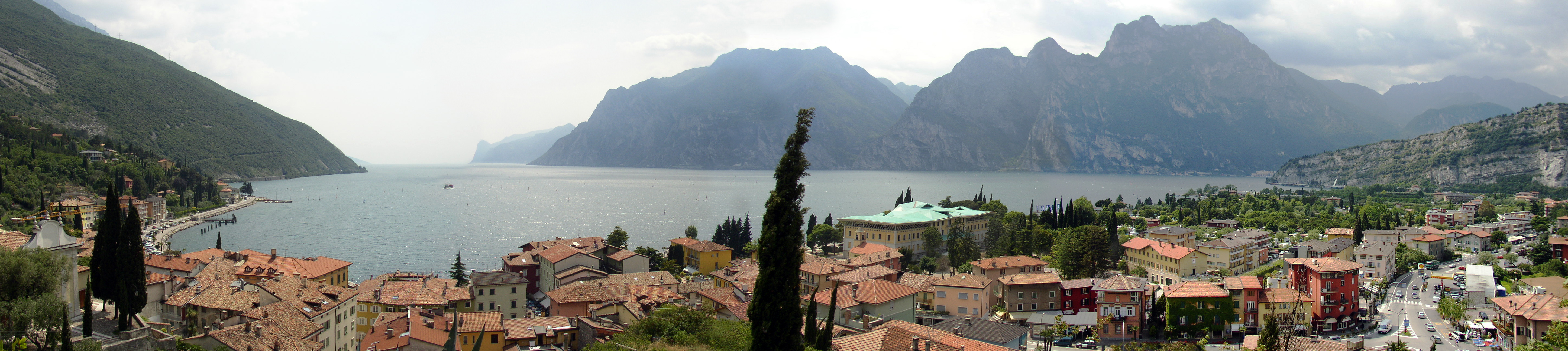 Lake Garda, view from Torbole southwards NOTE: This image is a panorama consisting of multiple frames that were merged in software. As a result, this image necessarily underwent some form of digital manipulation. These manipulations may include blending, blurring, cloning, and color and perspective adjustments. As a result of these adjustments, the image content may be slightly different than reality at the points where multiple images were combined. This manipulation is often required due to lens, perspective, and parallax distortions.